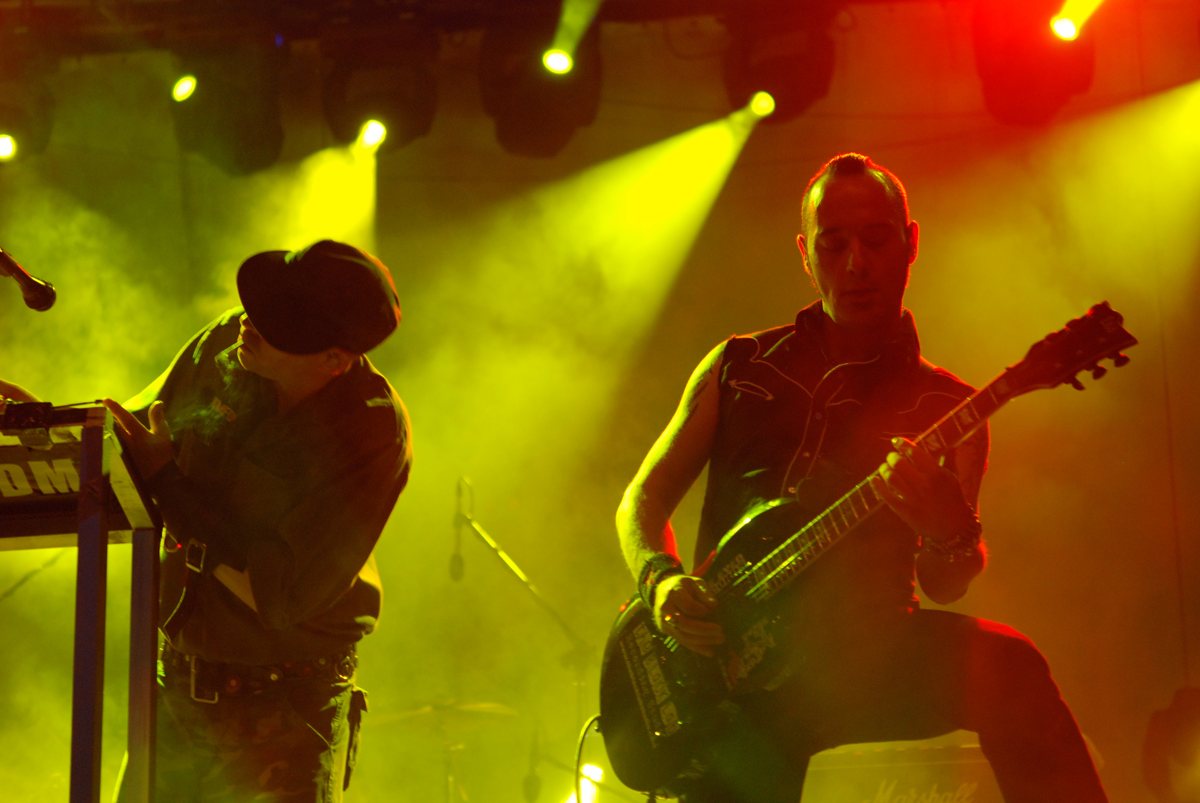 This photo was made in cooperation with CASTLE PARTY PRODUCTIONS in Bolków (webpage)